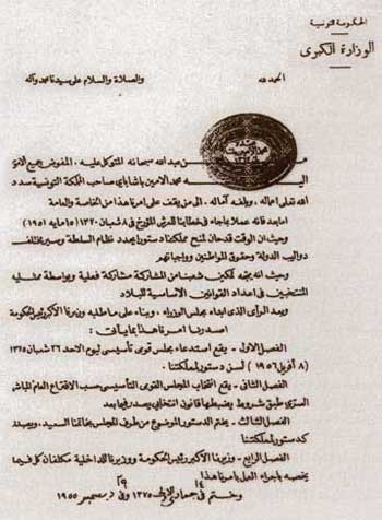 National_assembly_declaration_of_constitution tunisia 1956